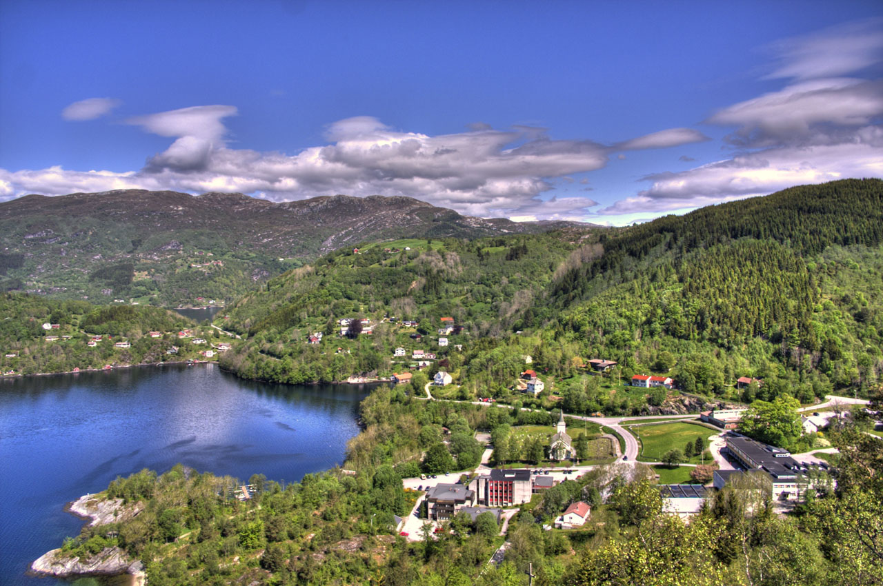 Hyllestad sentrum HDR Photomatix